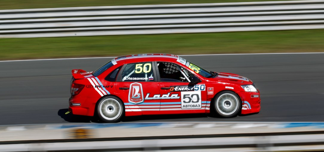 Nezvankin, Lada Granta sport, Kazan, RCRS 2016